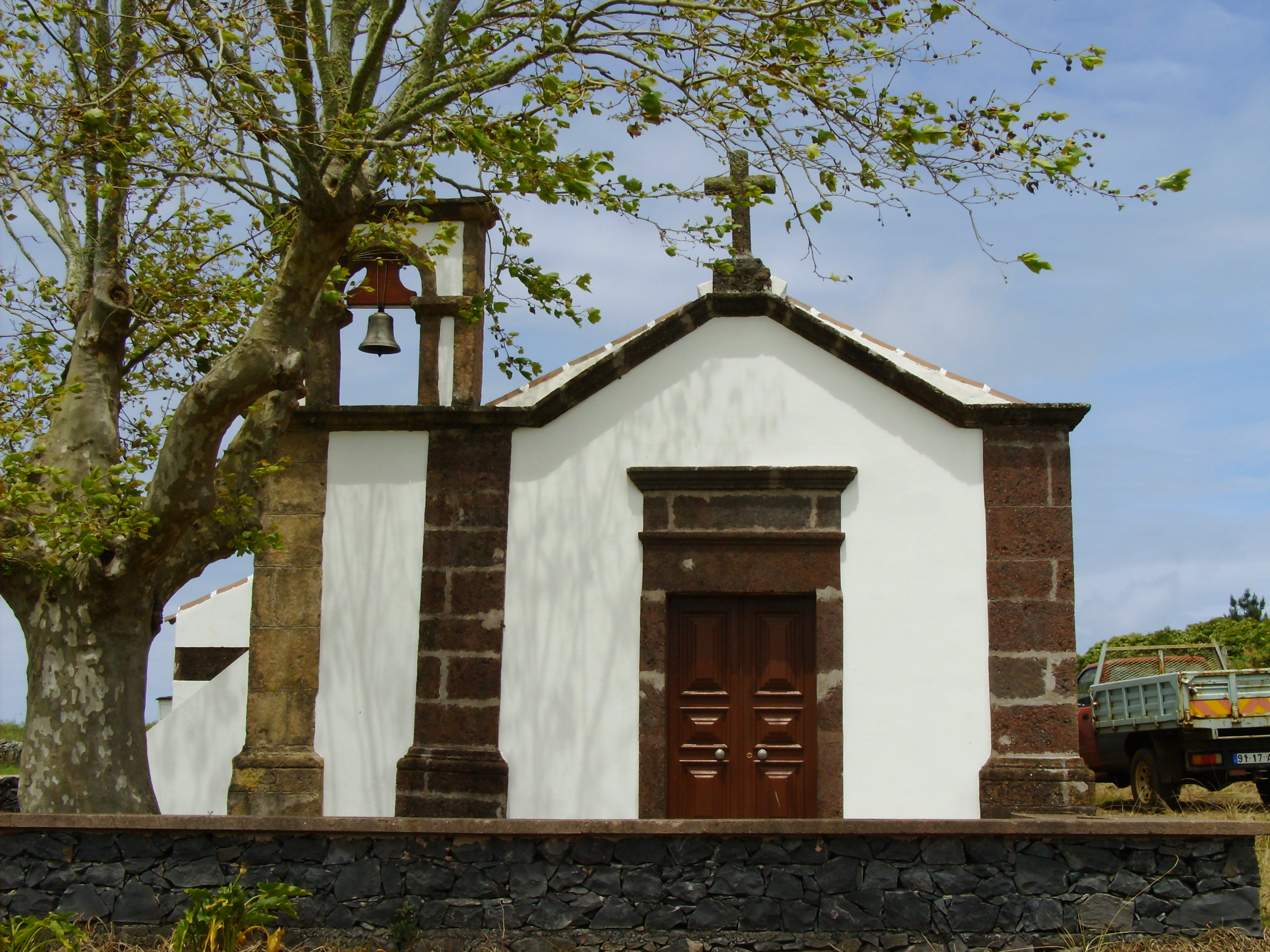 Chapel of Nossa Senhora de Monserrate, Santa Maria (Azores), Portugal